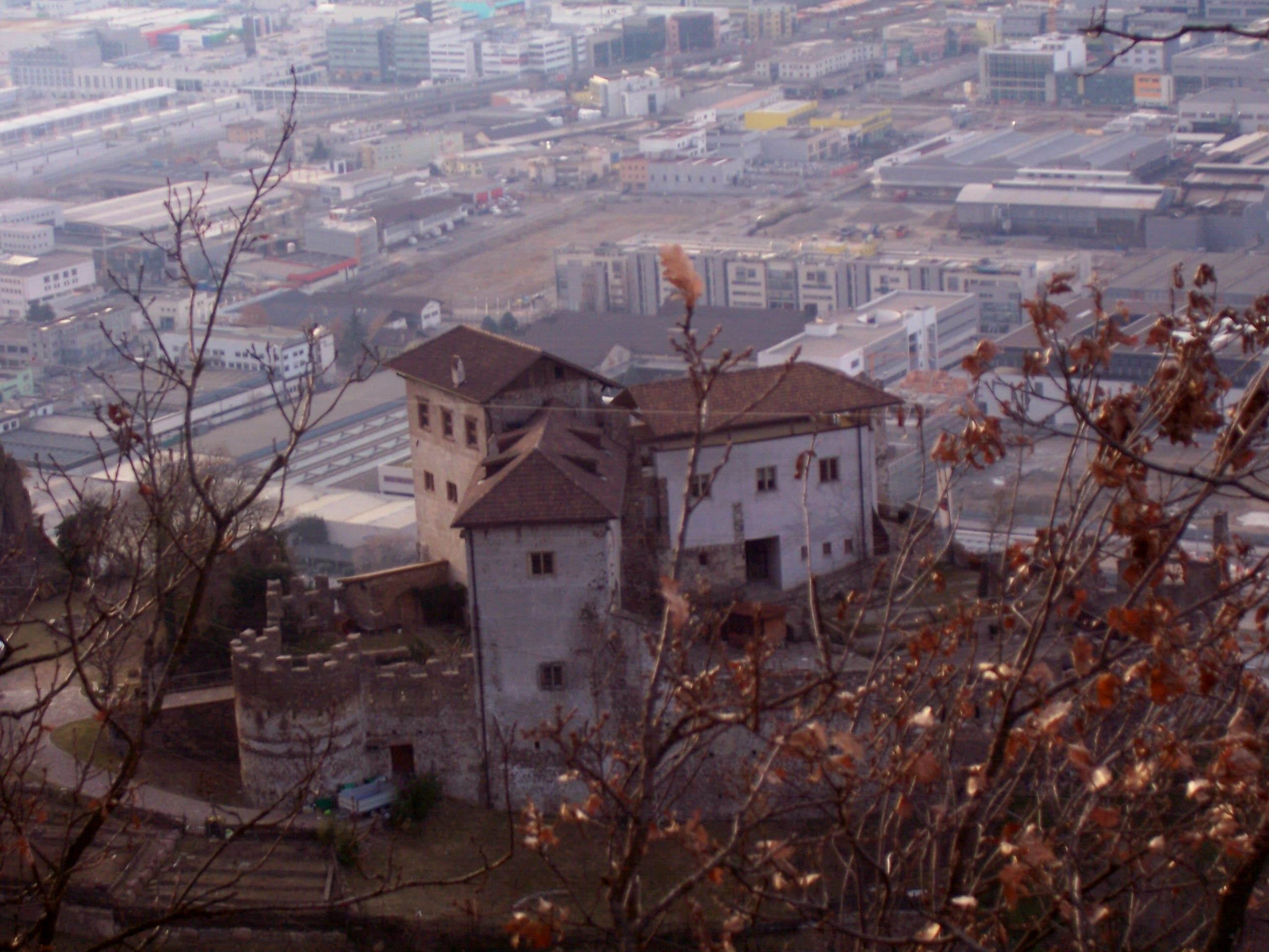 Castle Haselburg in Bolzano, South Tyrol